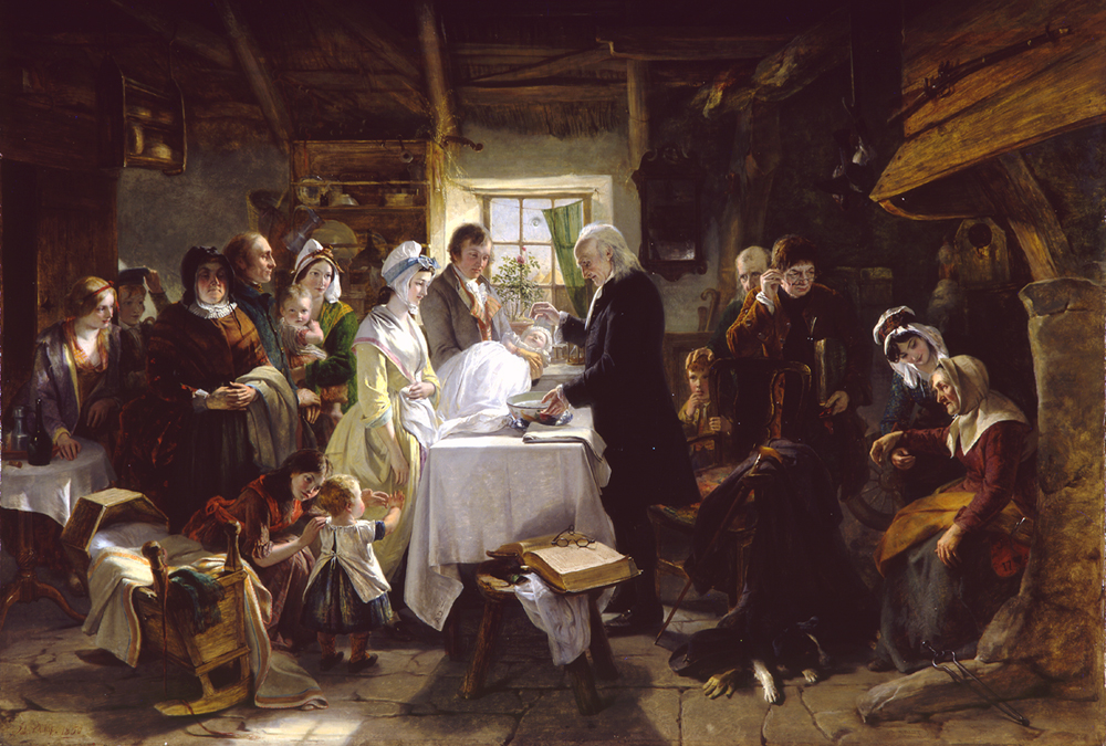 Painting of a baptism in a cottage in Scotland.